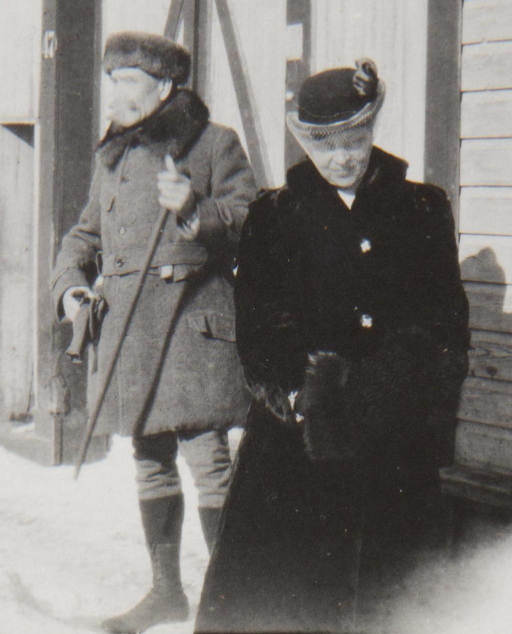 Akseli ja Mary Gallen-Kallela talonsa edustalla Jokikadulla Porvoossa huhtikuussa 1922. Gallen-Kallelat asuivat Porvoossa 1921-1923. kuvauspaikka: Porvoo, Jokikatu ajoitus: huhtikuu 1922 kuvaaja: Kirsti Gallen-Kallela kuva-alan mitat: 63x88mm tekniikka: merkintöjä: inventointinumero: Kot. 1 a/107 kokoelma: Akseli Gallen-Kallelan valokuvakokoelma tutki lisää / explore further: Tiedätkö lisää tästä kuvasta? Kerro meille! Do you have information on this photo? Let us know!